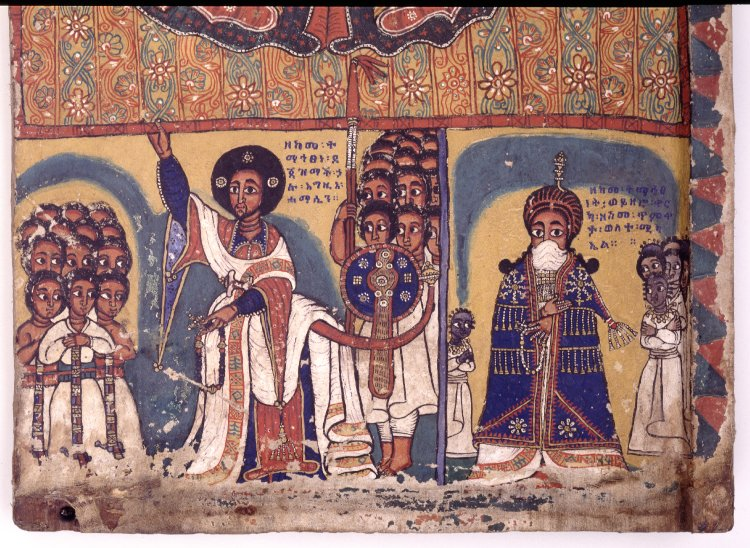 Dejazmach Hailu, governor of Hamasien, armed with a shotel curved sword. Right of him, his attendants carrying his shield and spears. Left of him, soldiers armed with machlock guns. (Description according to Christopher Spring: African Arms and Armour. British Museum Press, London 1993, ISBN 0-7141-2508-3, plate 22